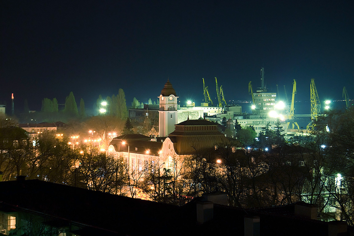 The central railway station and port of Burgas